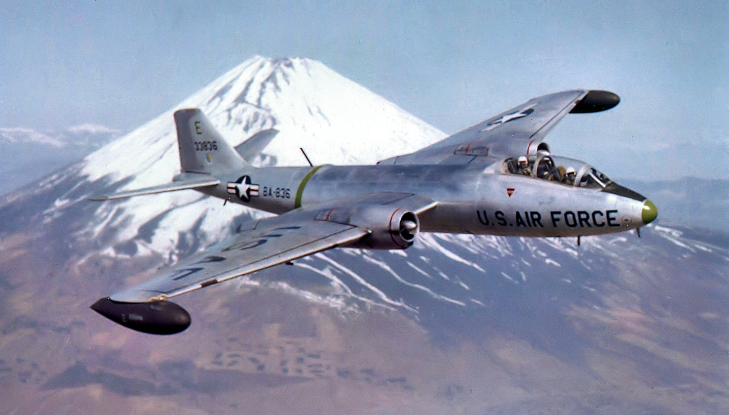 3d Bombardment Group B-57C 53-836 by Mount Fuji